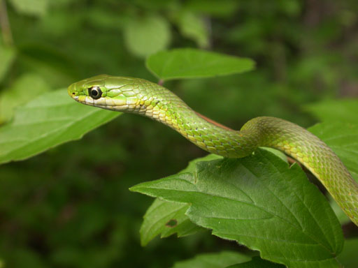 Rough Green Snake, Opheodrys aestivus. Notes: draped over vegetation, Viburnum rafinesquiam. Location: Durham County, North Carolina, United States.